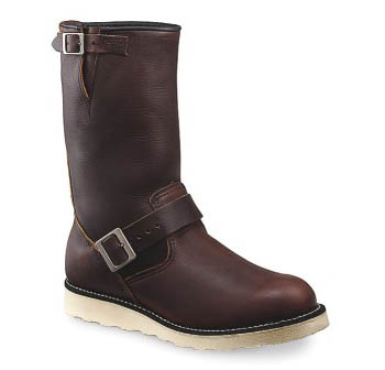 Engineer work boot